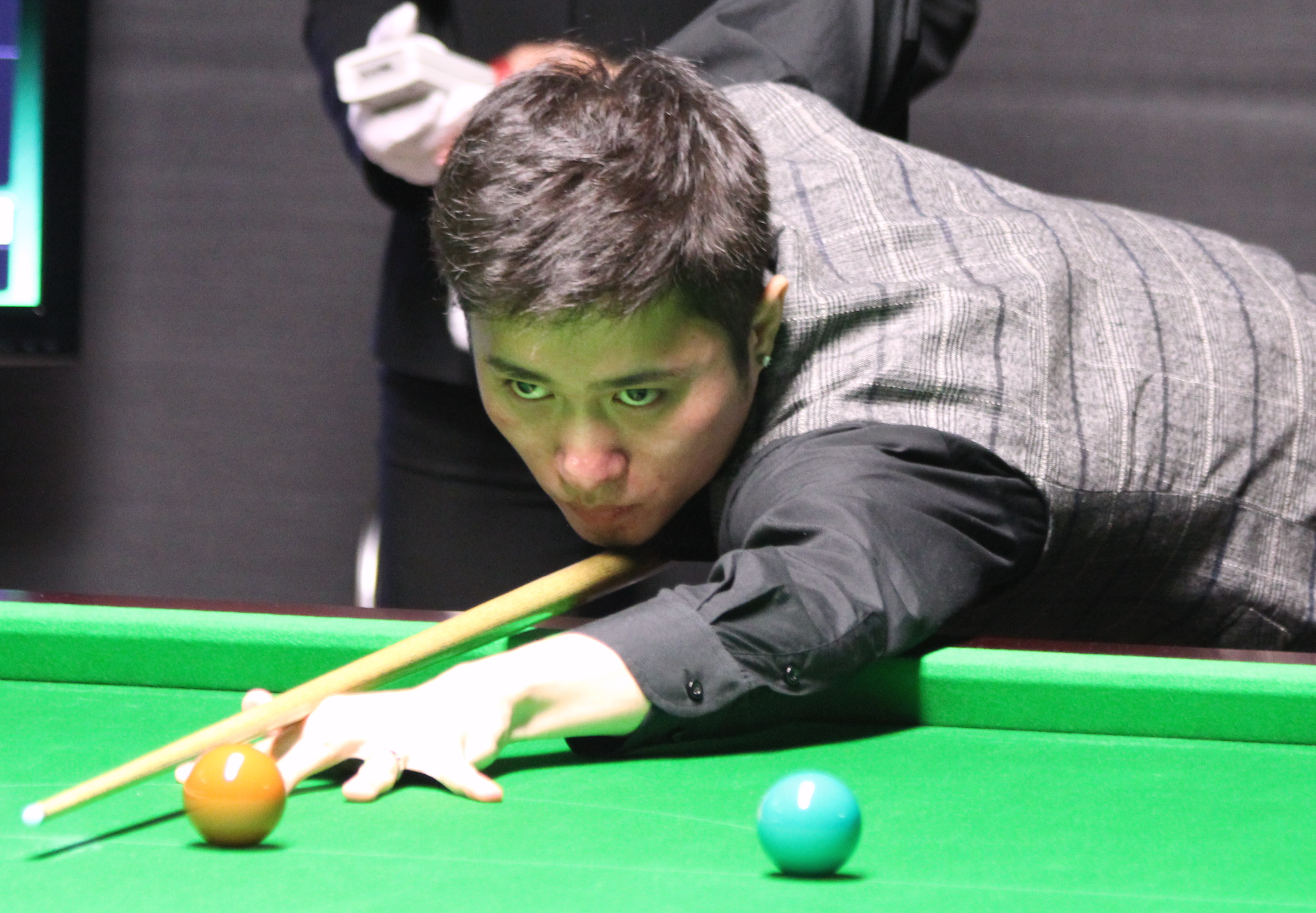 Cao Yupeng beim Paul Hunter Classic 2016